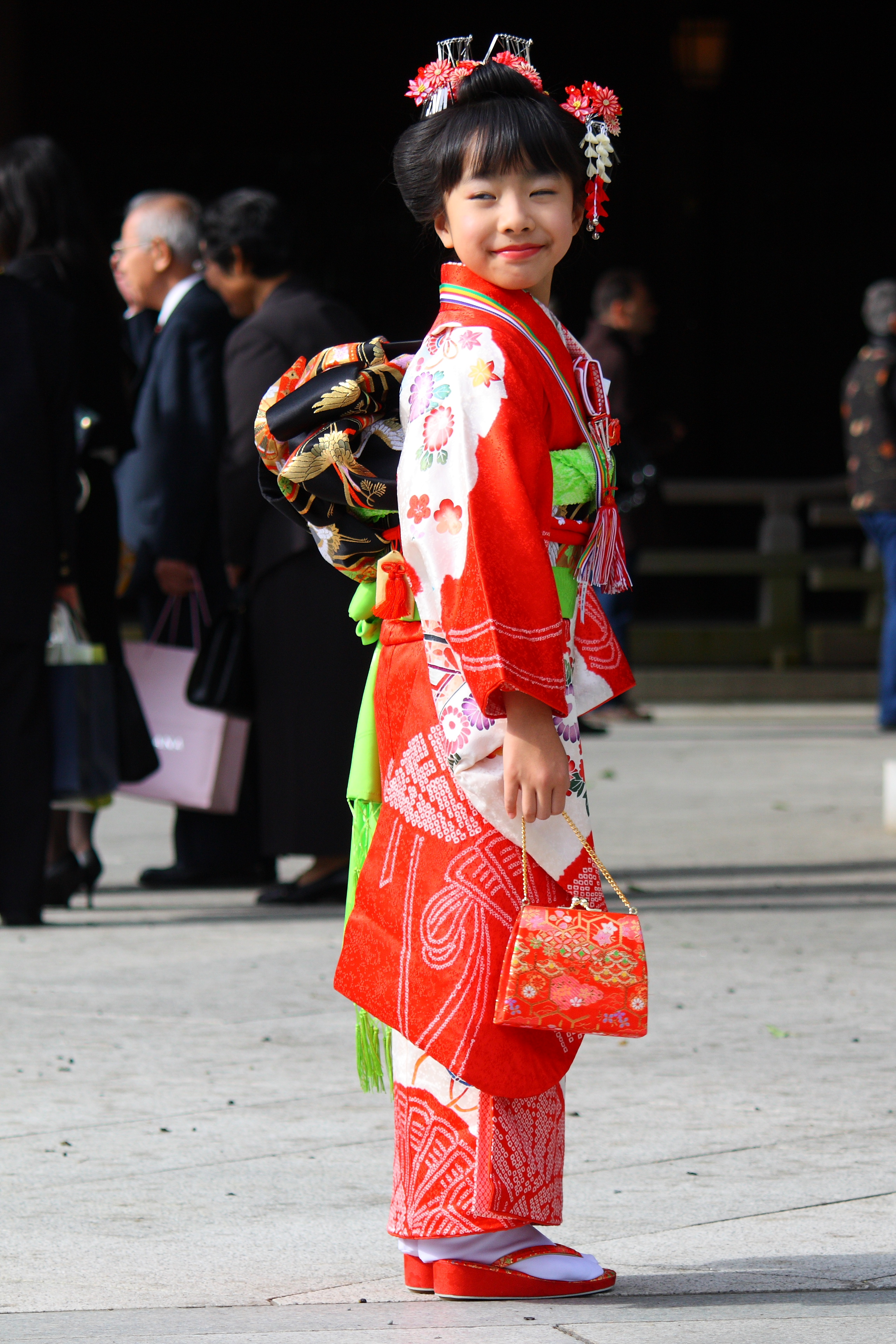 A young girl wearing red kimono in a Shichigosan festival, Tokyo.